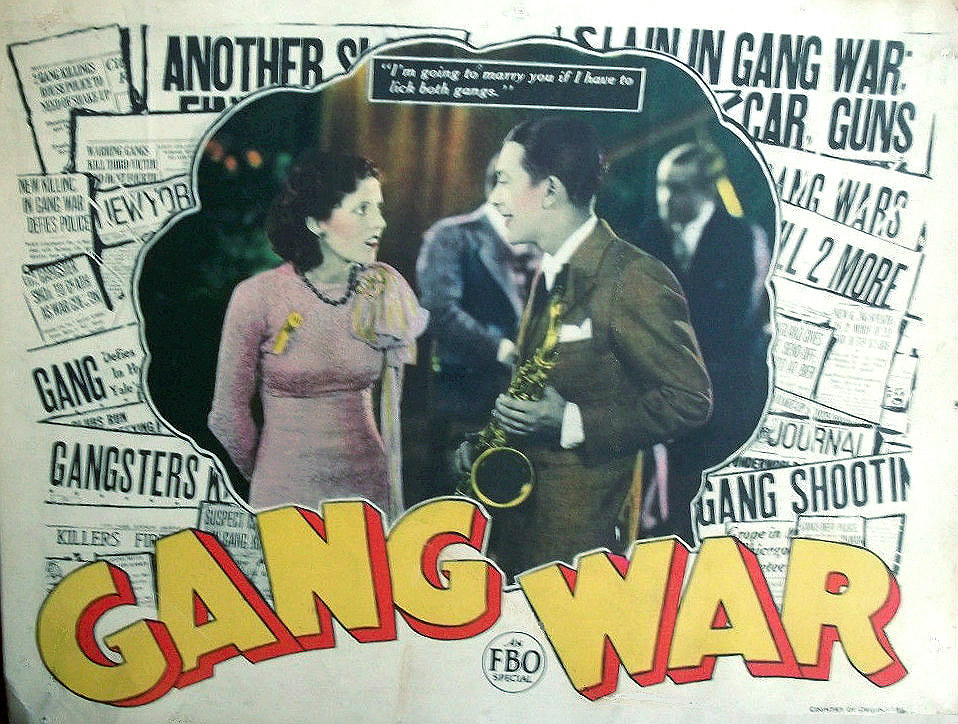 Lobby card for the American crime drama film Gang War (1928). The item has no copyright marks as can be seen in the links. At bottom right is Country of origin USA.